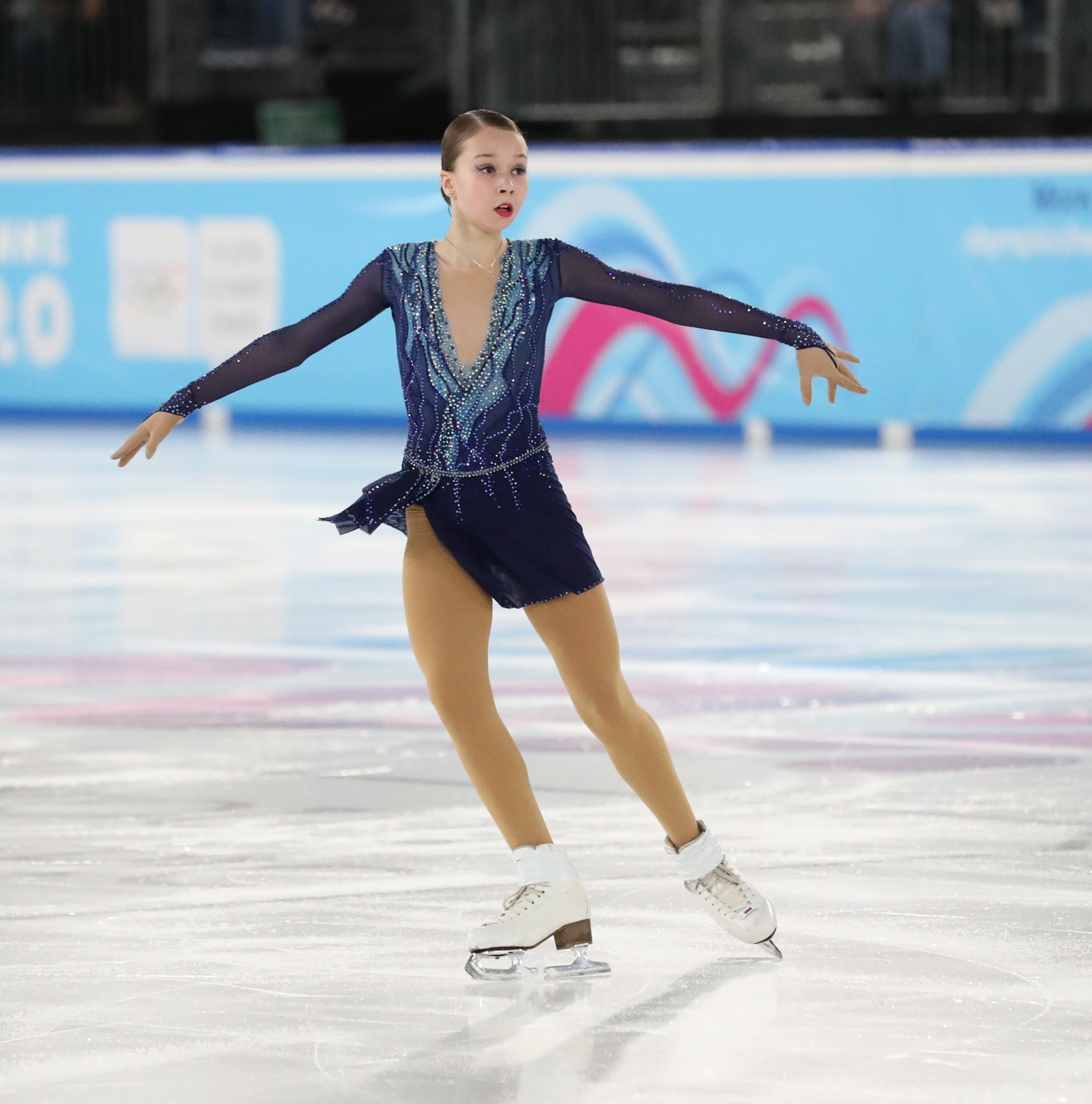 Women Single Figure Skating Short Program at the 2020 Winter Youth Olympics in Lausanne